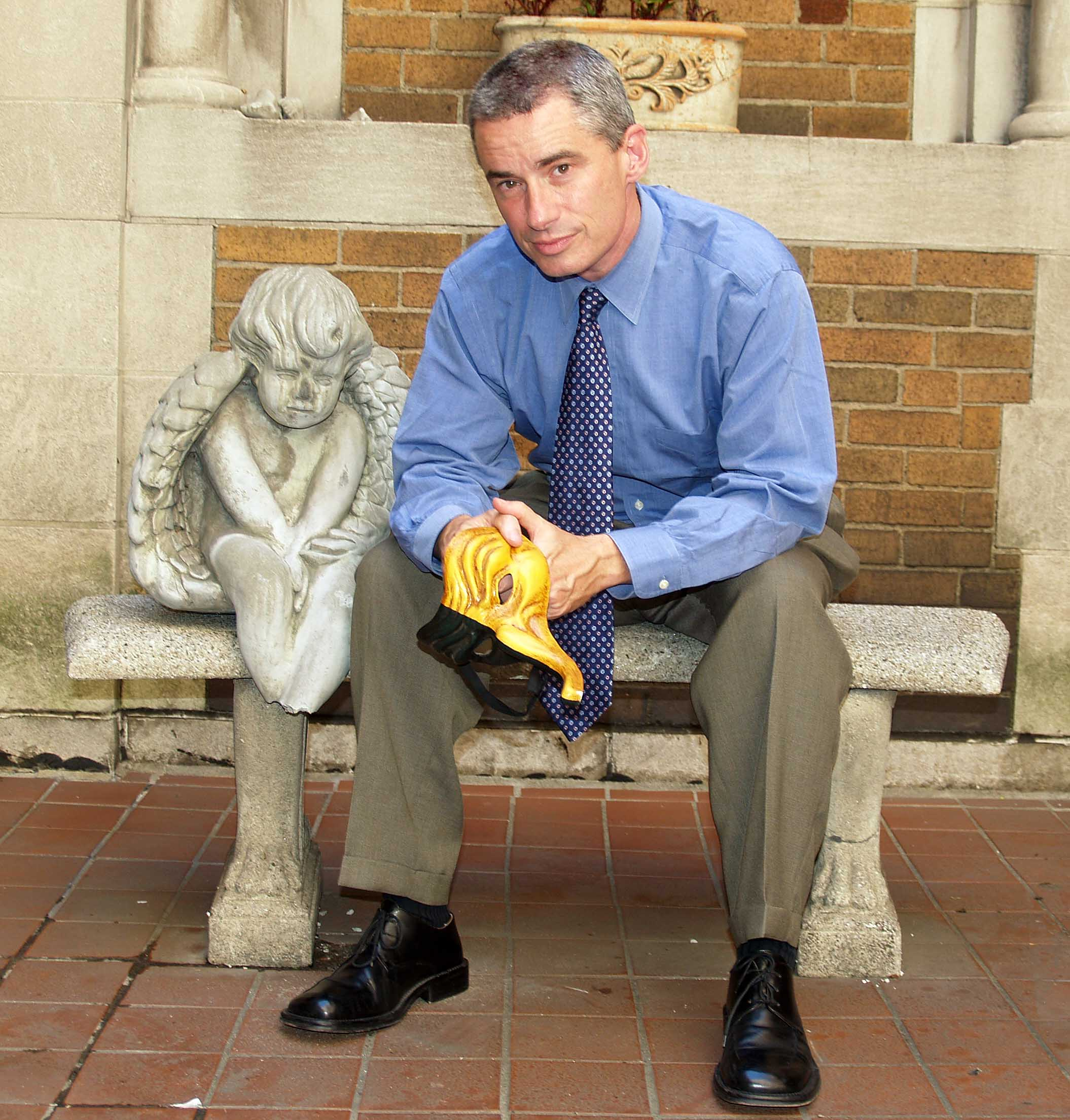 Jim McGreevey--former governor of New Jersey.